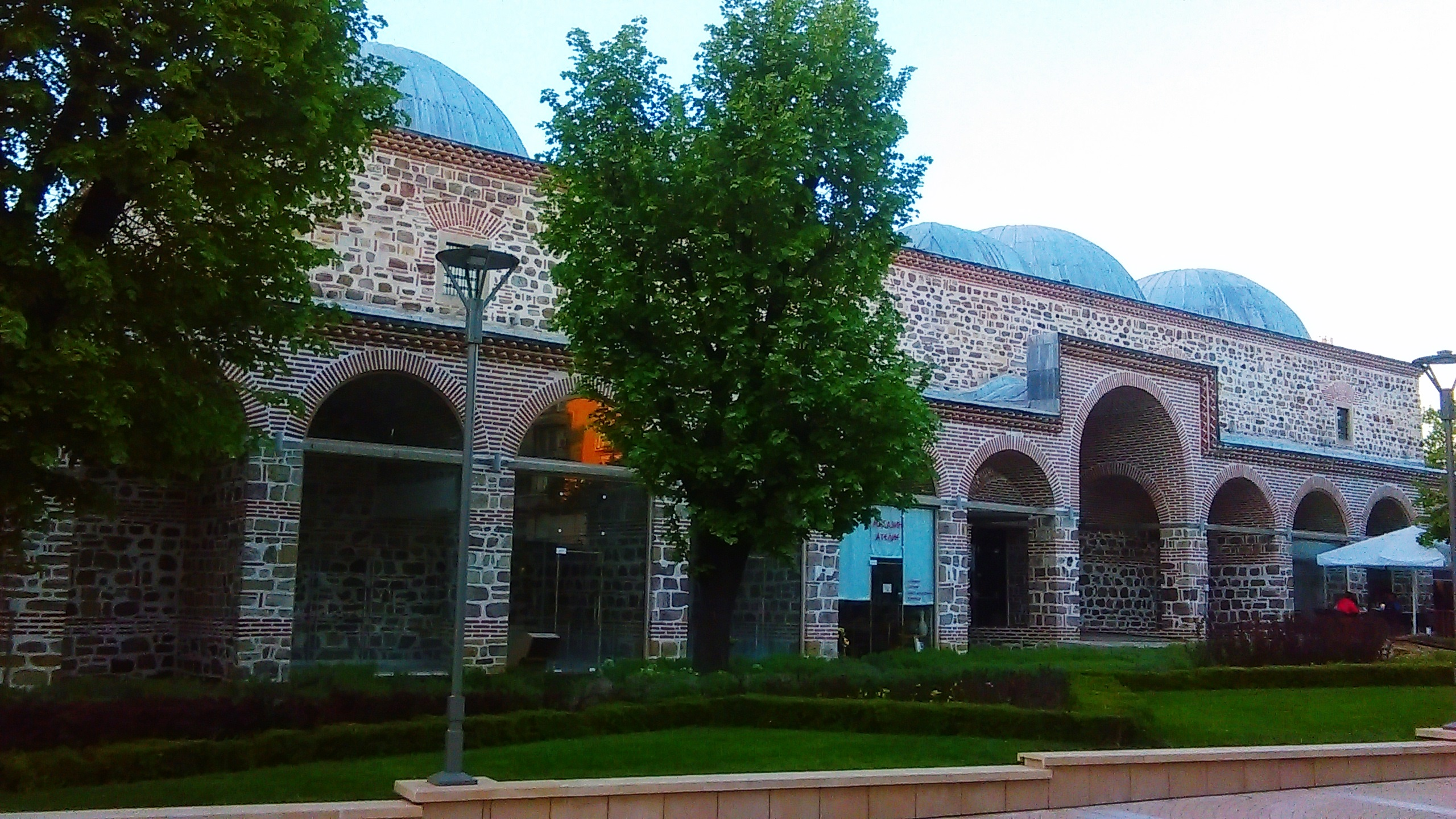 Bezisten covered bazaar in Yambol, Bulgaria